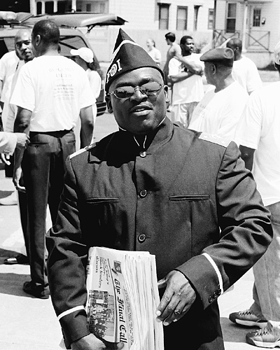 A Nation of Islam member sells copies of the Final Call, a newspaper of Nation of Islam. The man have a hat with the logo of fruit of islam, the security branch of the organisation. “This gentleman was nice enough to answer my questions and to pose for a photograph.”